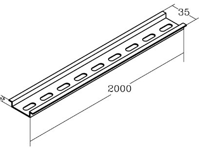 Desenho técnico de um trilho DIN